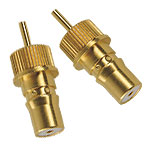 QMA RF connector